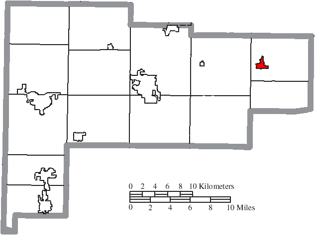 Map of the municipal and township boundaries of Auglaize County, Ohio, United States, as of the 2000 census, with the location of the village of Waynesfield highlighted. Township borders are shown only in unincorporated areas in order to differentiate incorporated and unincorporated areas more clearly.